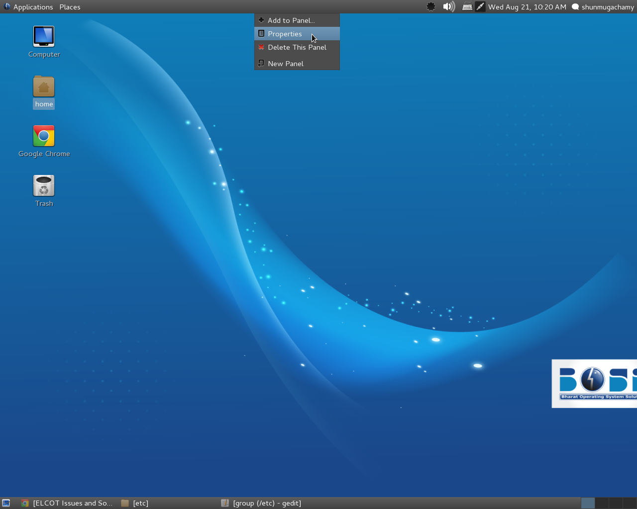 Boss Linux 5.0 Desktop Environment